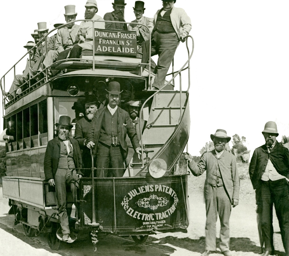 A vehicle almost identical to those operated by Adelaide horse tram companies, with 9 men on the upper deck and 8 in the foreground. On the front of the tram is a sign, "Julien's Patent Electric Traction – Duncan & Fraser car builders Adelaide [and] Melbourne". The occasion was a trial run by the Hindmarsh and Henley Beach Tramway Company of this battery powered vehicle to consider its potential to be introduced to save the costs associated with operating with horses. The tram was provided by the Julien Electric Traction and Lighting Company of Australia.